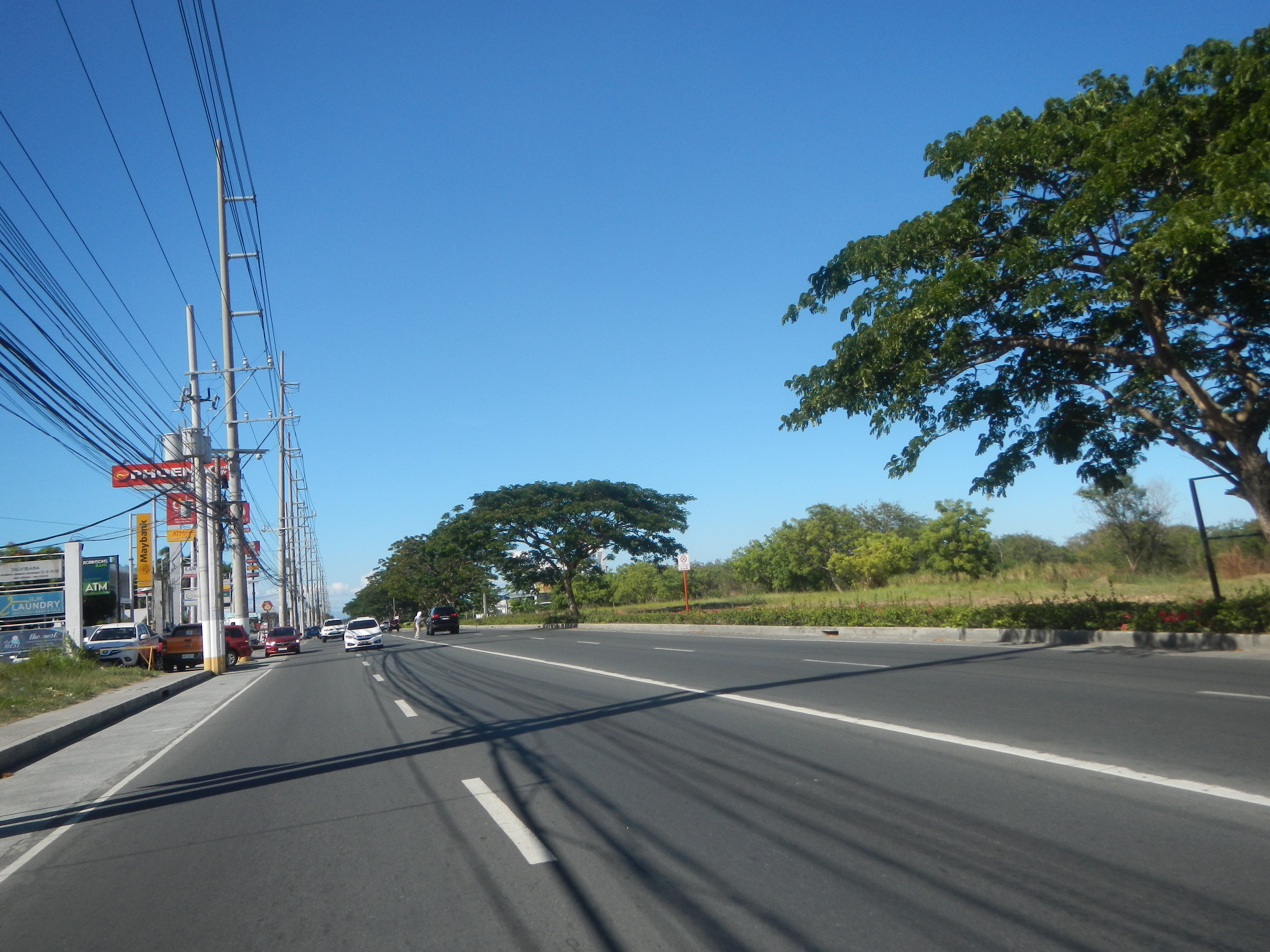 Jollibee restaurants in Laguna (province) Vista Mall Santa Rosa - All Day Supermarket Vista Malls All Day Convenience Store All Day Supermarket Vista Land & Lifescapes Greenfield City (Don Jose, Santa Rosa, Laguna) Paseo - Greenfield City (Don Jose, Santa Rosa, Laguna) Tagaytay–Santa Rosa Road (Pulong Santa Cruz, Don Jose and Santo Domingo, Santa Rosa, Laguna) Laguna BelAir Subdivision (Don Jose, Santa Rosa, Laguna) 1st District List of barangays in Laguna (province) Barangays Don Jose 14°15'13"N 121°4'39"E Santo Domingo 14°13'57"N 121°3'59"E Pulong Santa Cruz 14°16'34"N 121°5'6"E Balibago 14°17'26"N 121°6'16"E Santa Rosa, Laguna along Tagaytay–Santa Rosa Road and interconnecting with Cavite–Laguna Expressway (Note: Judge Florentino Floro, the owner, to repeat, Donor Florentino Floro of all these photos hereby donate gratuitously, freely and unconditionally Judge Floro all these photos to and for Wikimedia Commons, exclusively, for public use of the public domain, and again without any condition whatsoever).